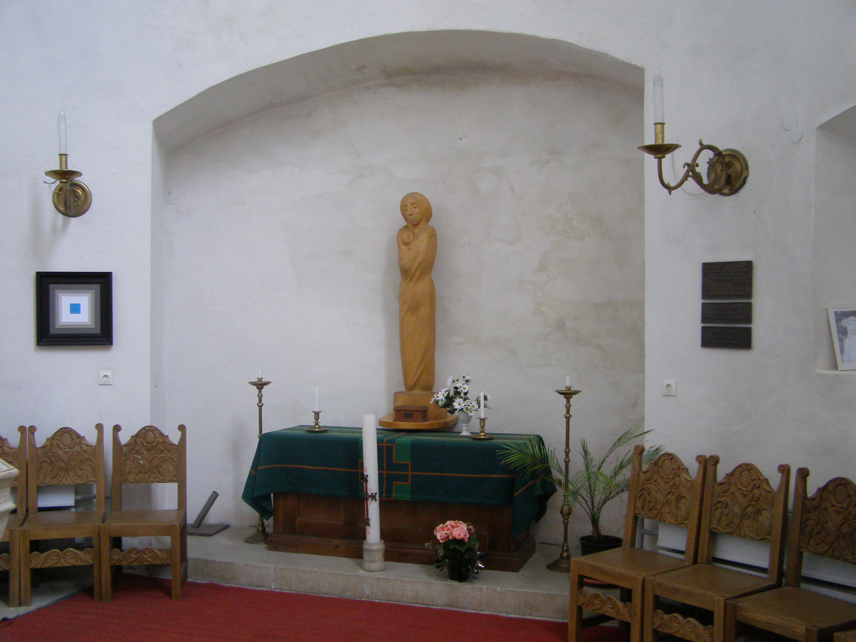 Mother's altar in Haapsalu Castle, Haapsalu, Estonia. My own photo, summer 2007.